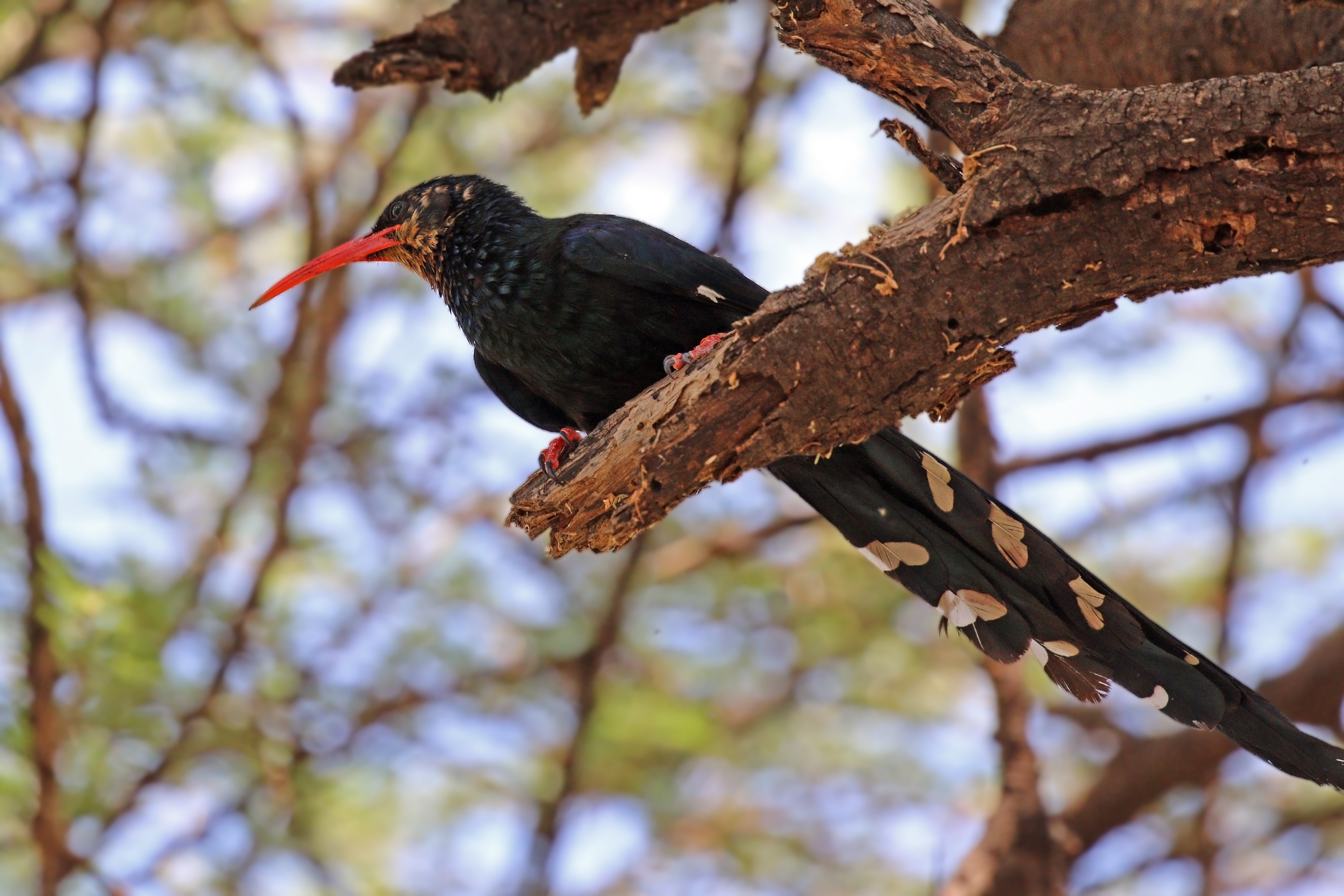 Green wood-hoopoe (Phoeniculus purpureus niloticus), Lake Baringo, Kenya